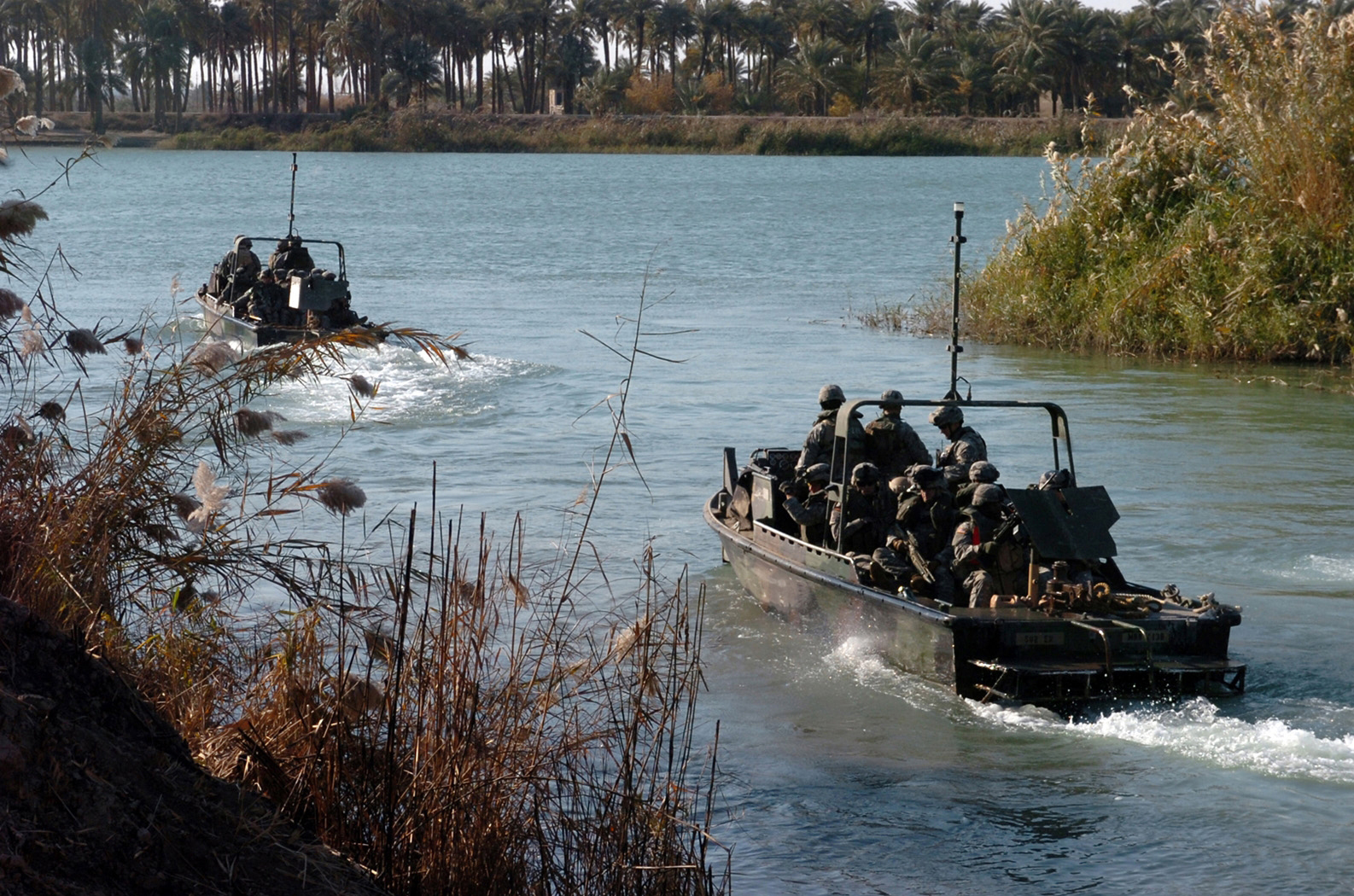 Paratroopers from Scout Platoon, 1st Battalion, 501st Parachute Infantry Regiment, 4th Brigade Combat Team, 25th Infantry Division, head out on a training mission on the Euphrates River, Feb. 5, 2007. Such training missions as this one helped the paratroopers get accustomed to water-borne operations. U.S. Army photo by Sgt. Marcus Butler